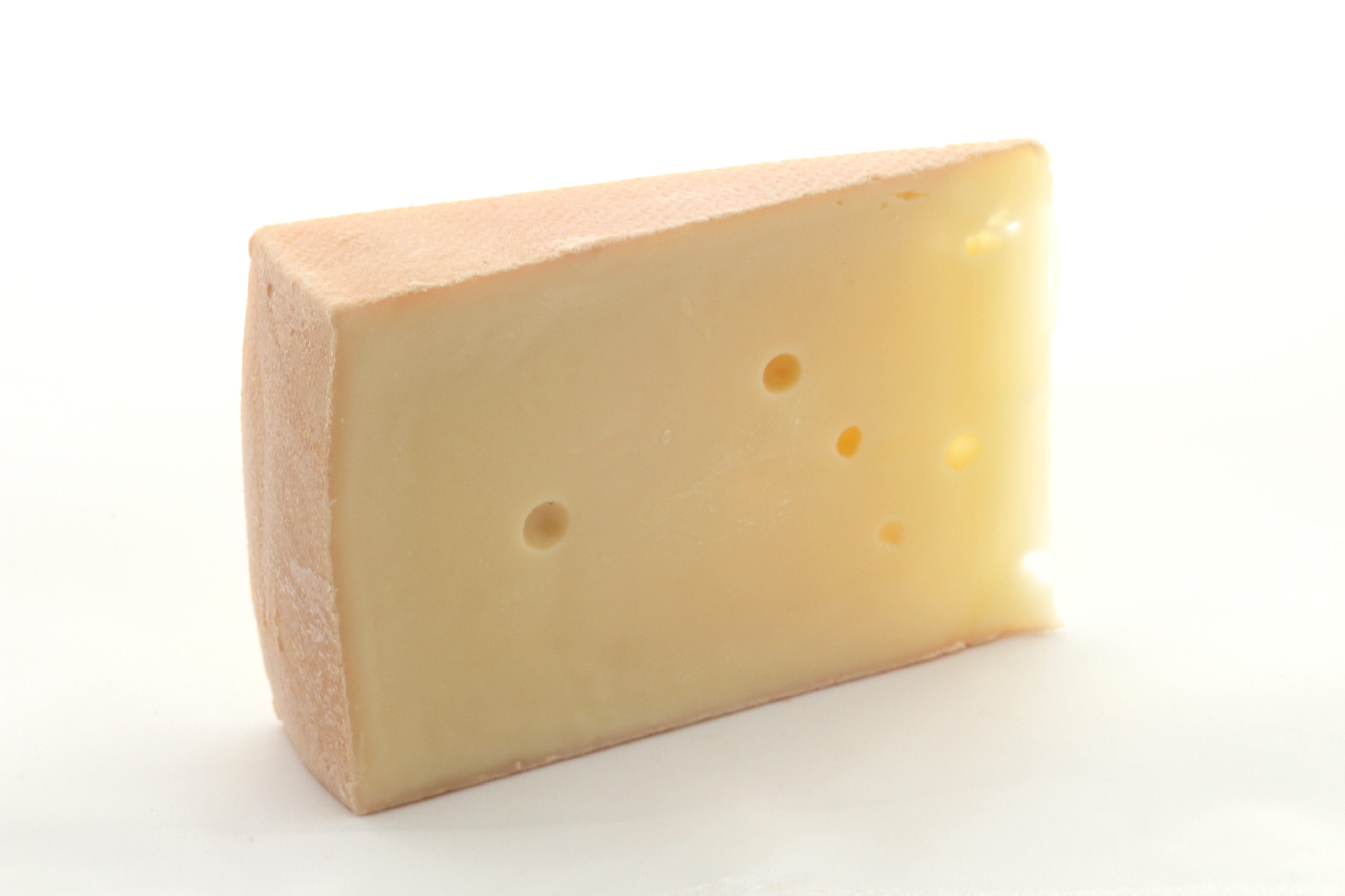 Tilsiter corsé (rouge) - Swiss semi-hard cheese, from thermised cow's milk.